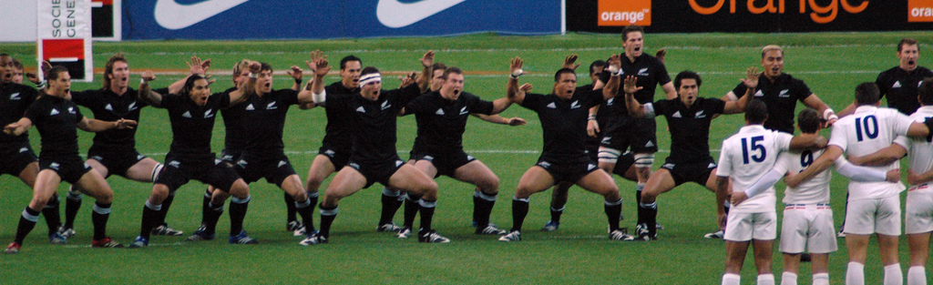 Shows All Black haka before a match against France, 18 November 2006. The All Blacks won the match 23-11.